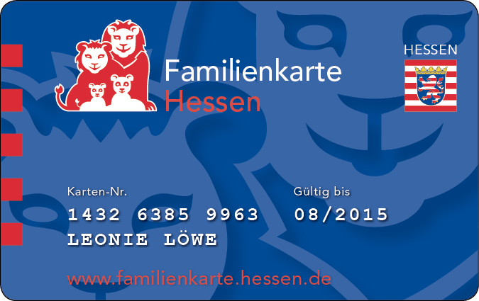 Familienkarte Hessen